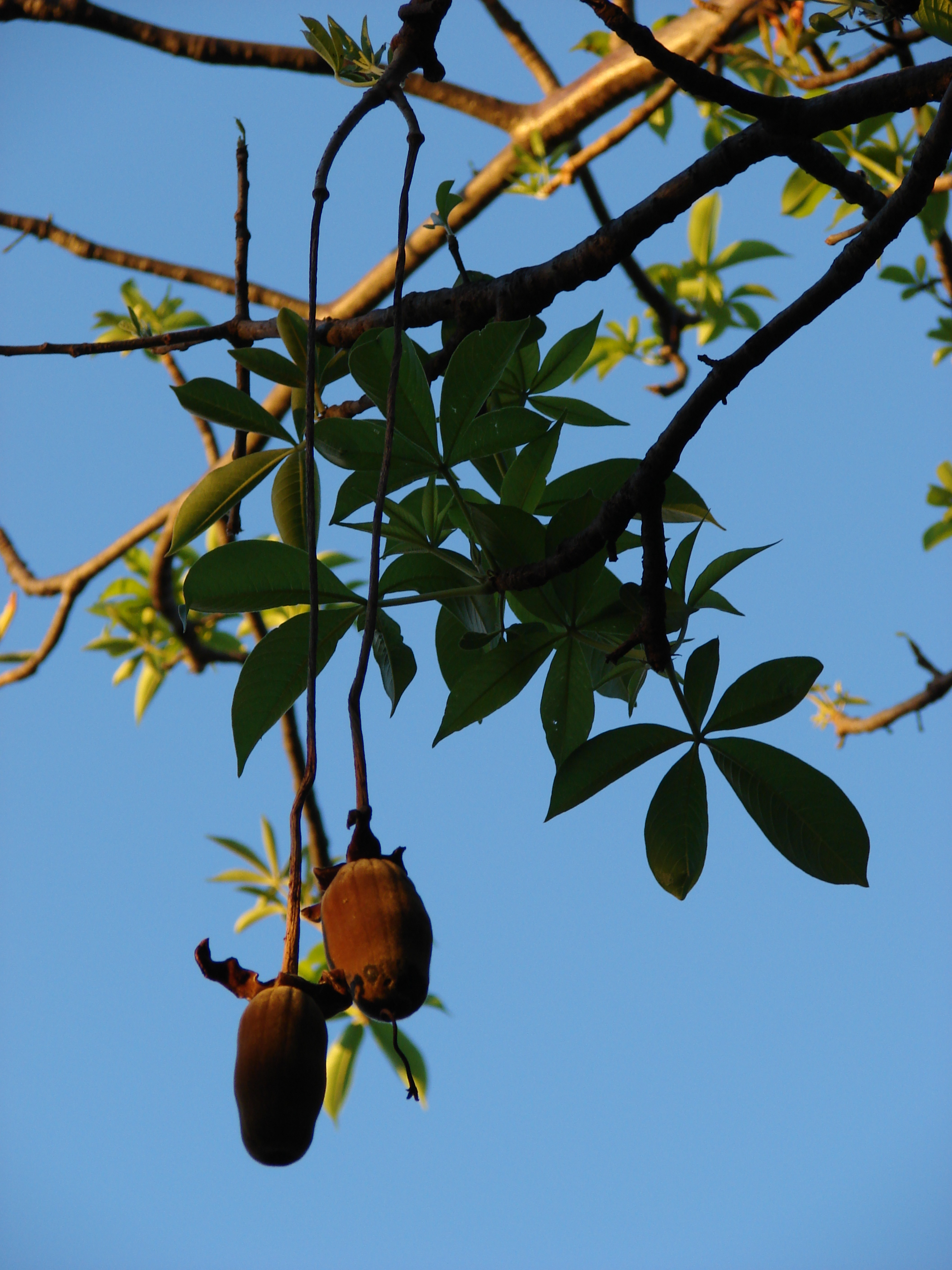 Adansonia digitata (hanging fruit). Location: Oahu, Ala Moana Beach Park